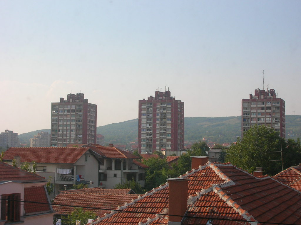 This is a picture of 3 Aces a local landmark Vladimir Vidanovic DURLANBRONX